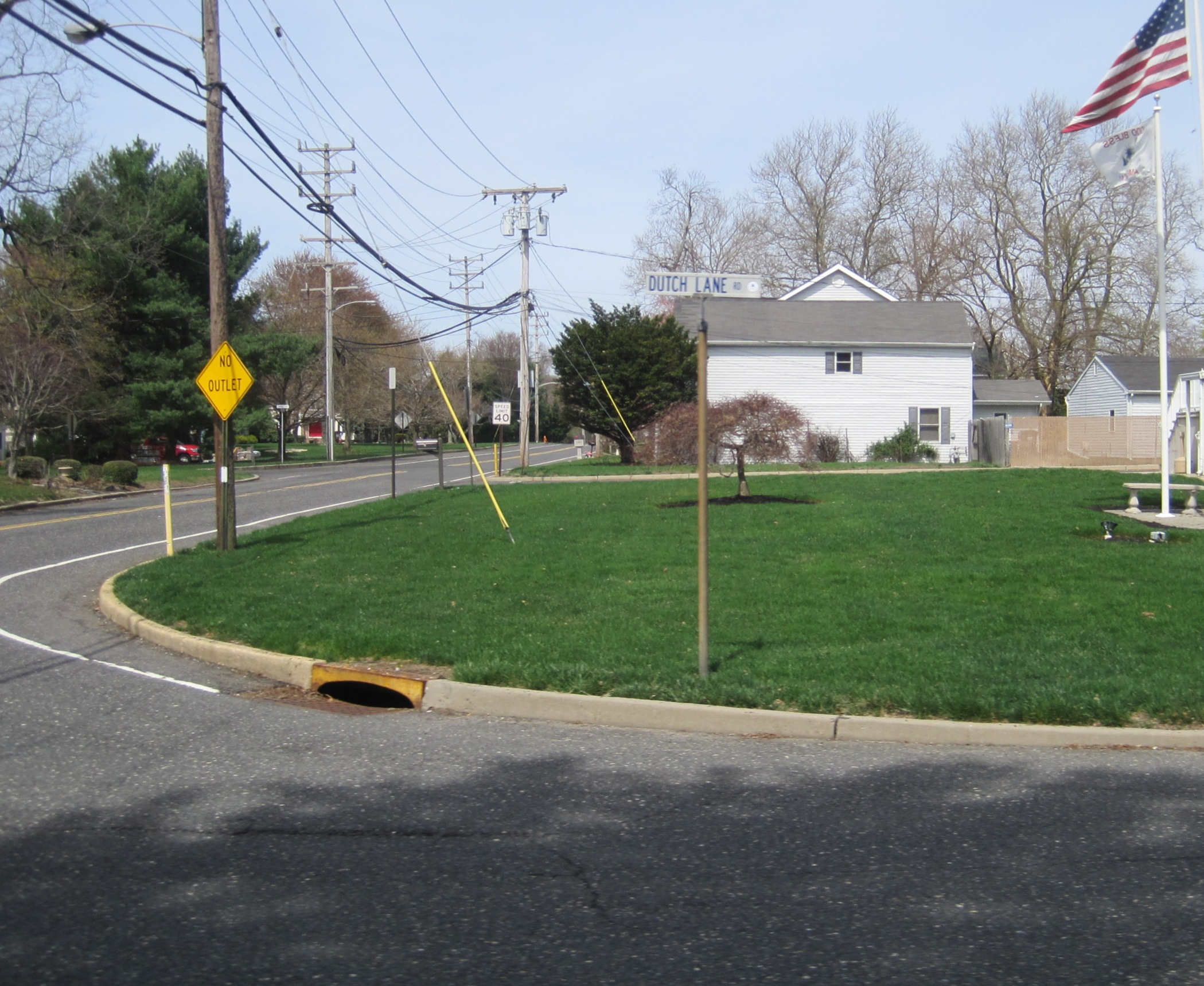 Photo of East Freehold, New Jersey, a census designated place in Freehold Township. Photo taken on eastbound Dutch Lane Road (County Route 46) looking north on East Freehold Road.